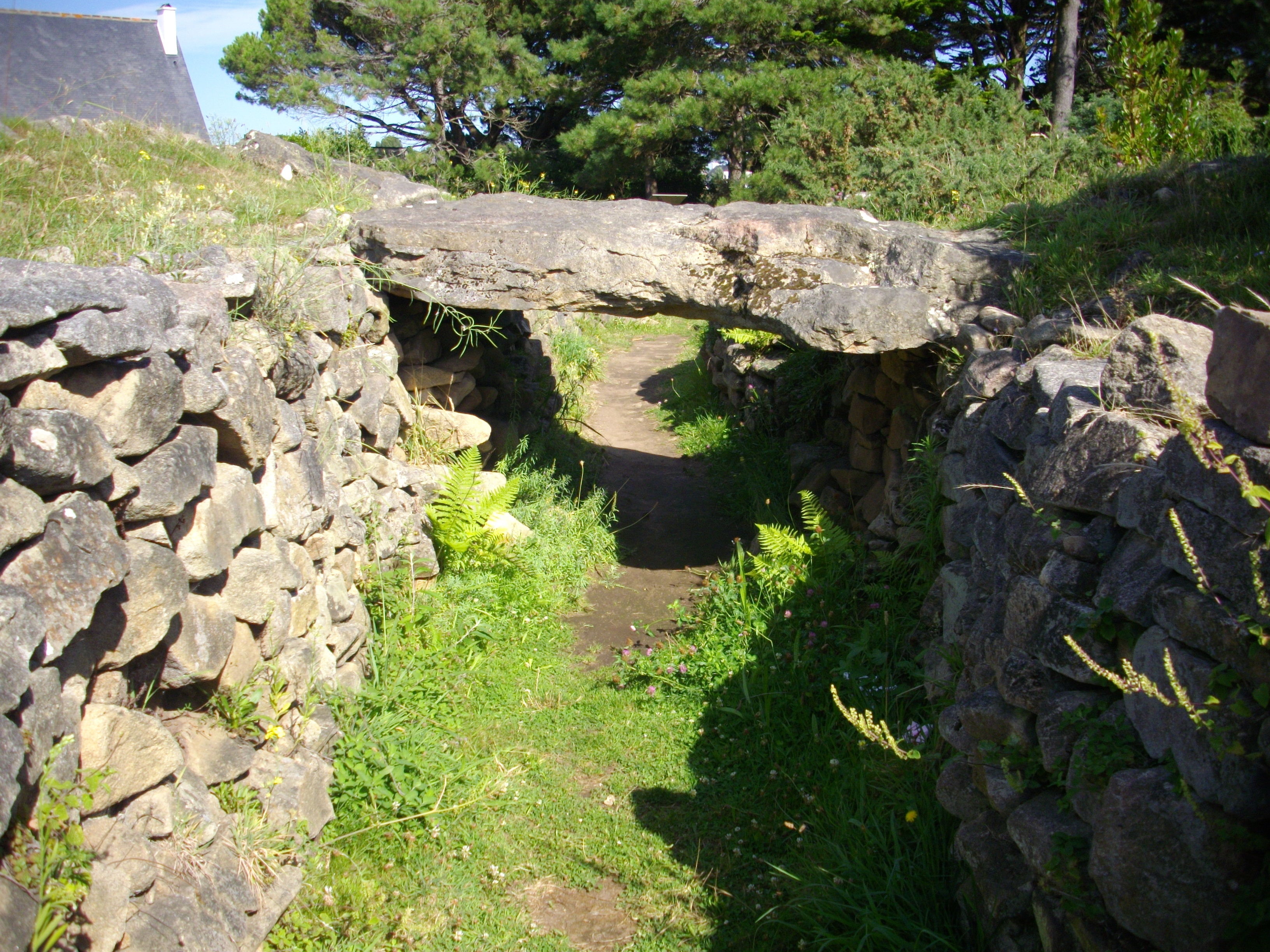 Dolmen of Bilgroix cape in Arzon (Morbihan, France) .